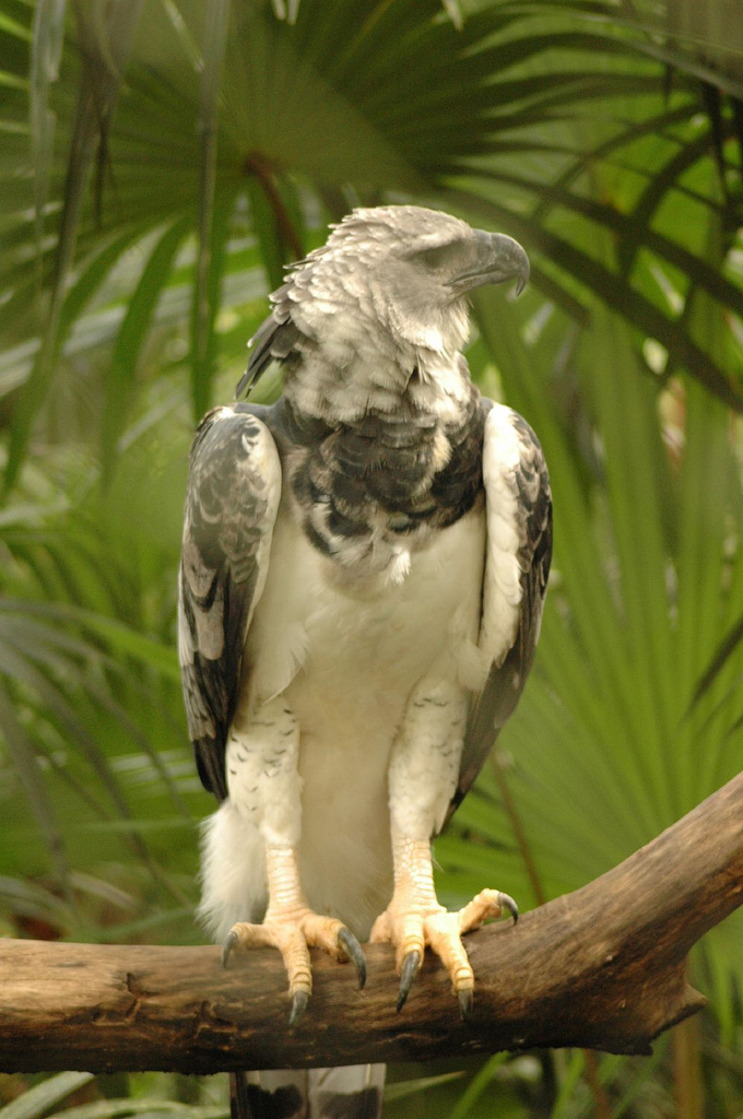 A sub-adult American Harpy Eagle, often called the Harpy Eagle, in Belize Zoo, Belize.